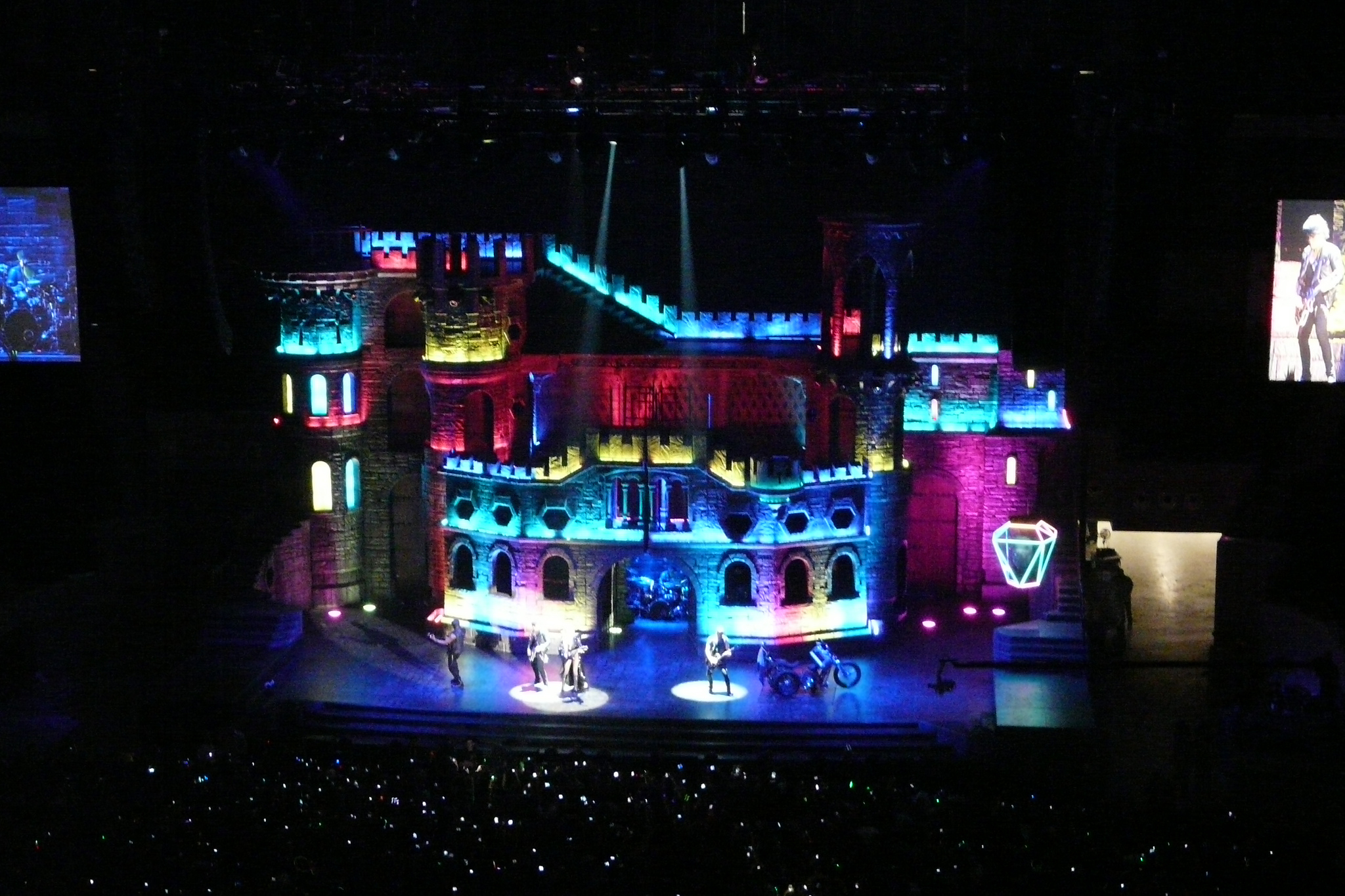 The Kingdom of Fame castle during a performance of "Electric Chapel" at The Born This Way Ball Tour in Mall of Asia Arena, Manila.